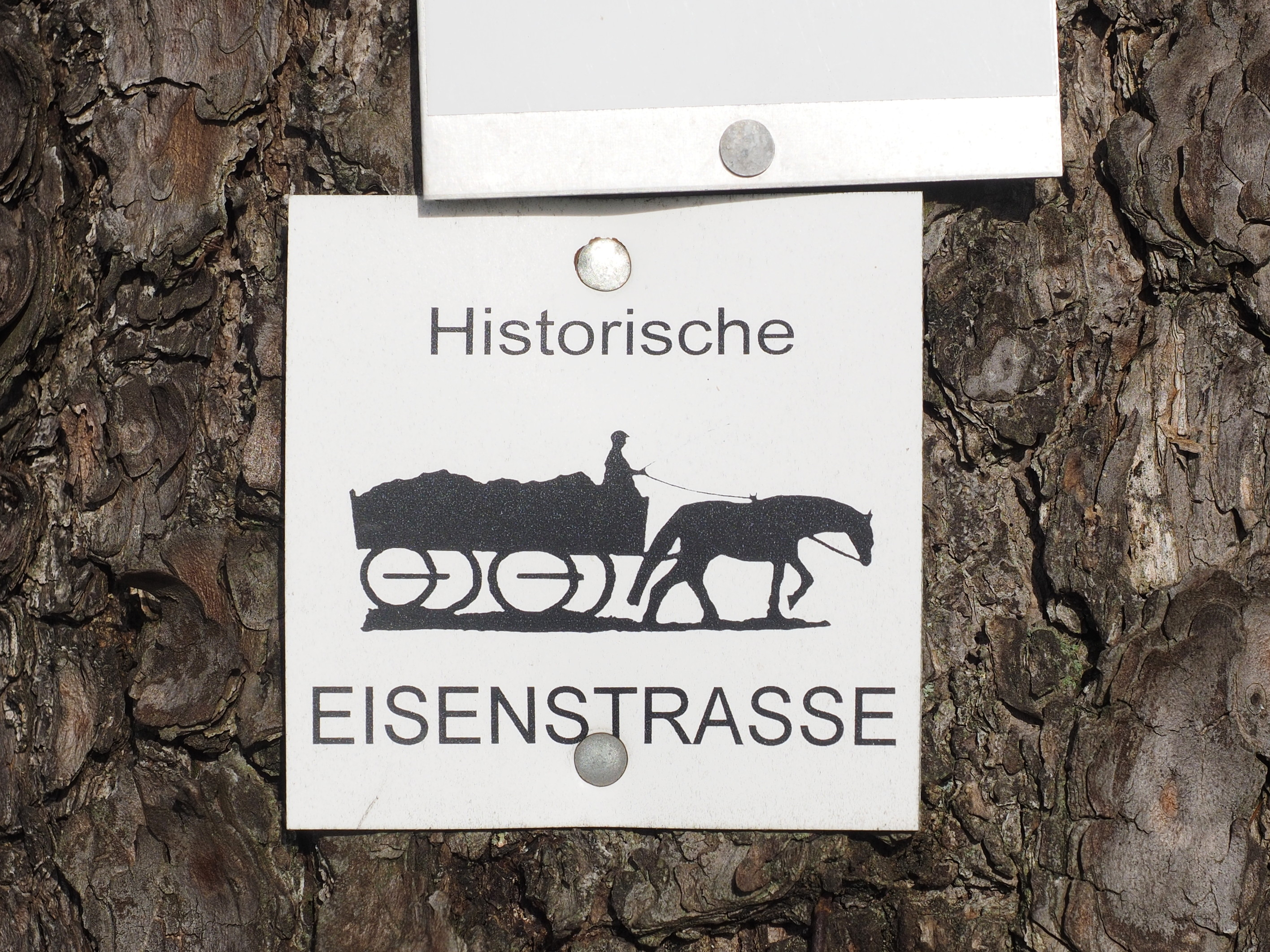 Signage of the historic "Iron Road", Hesse, Germany